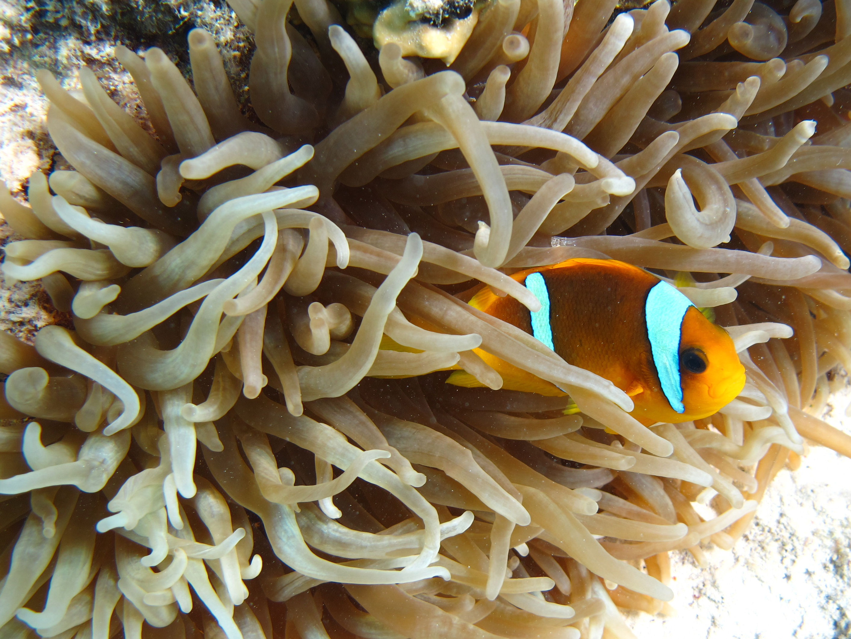 Clownfish - Marsa Alam, Egypt